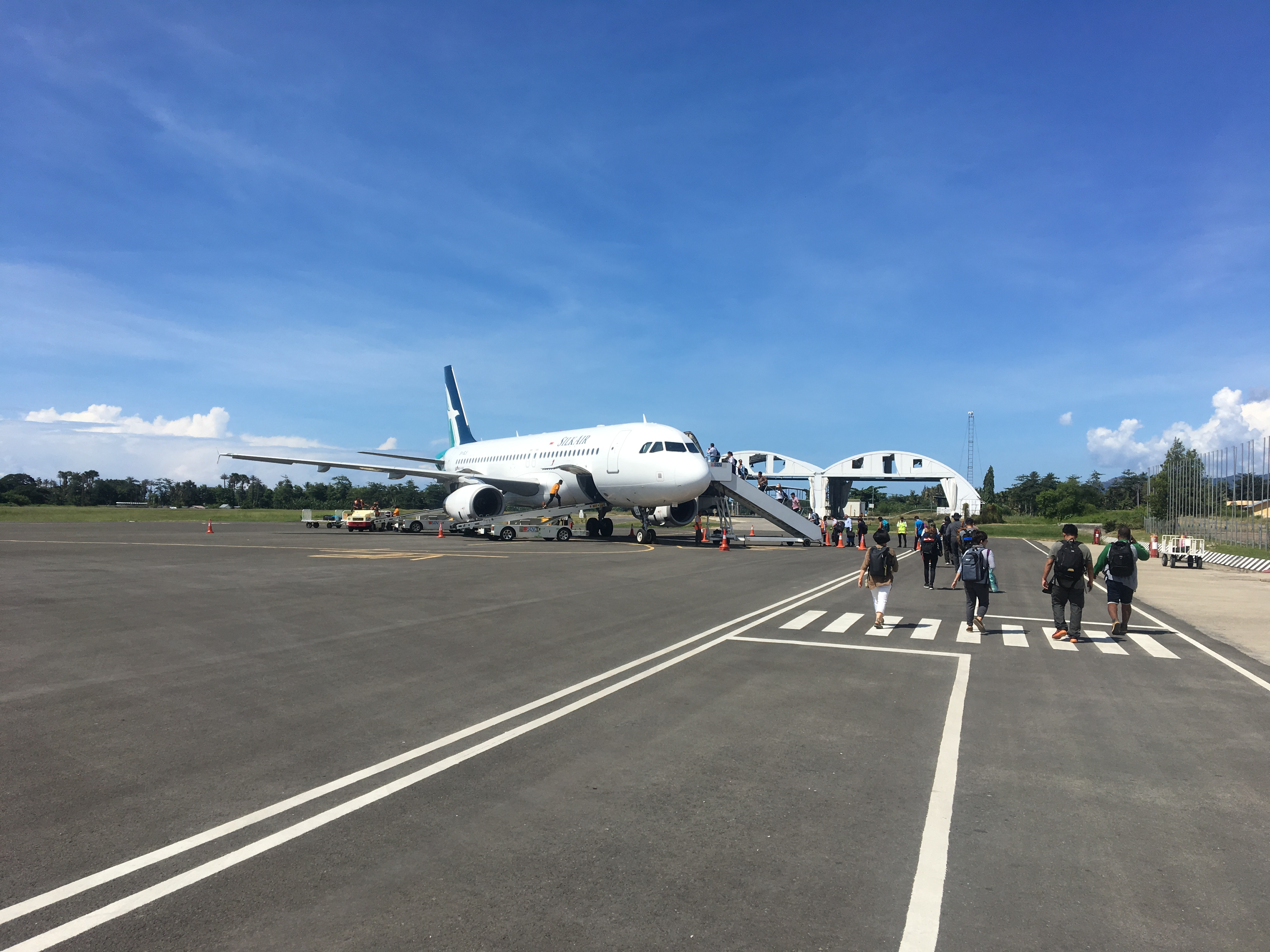 Airbus A320-233 wet-leased by Air Timor and operated by Silkair on International Airport Presidente Nicolau Lobato, Dili, East Timor in April 2018. Callsign SLK295, Aircraft 9V-SLS